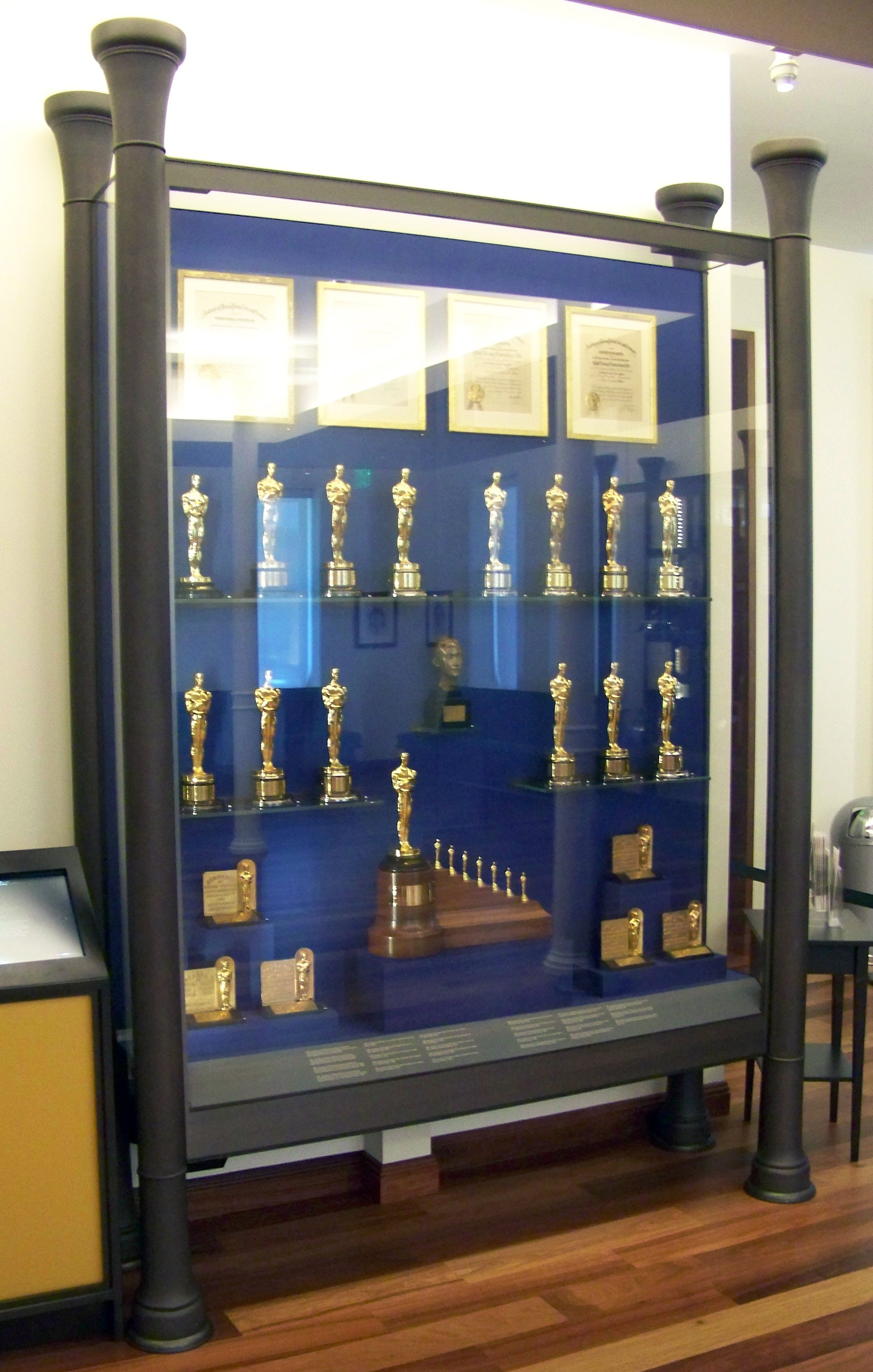 This display case in the lobby of the Walt Disney Family Museum in San Francisco is one of several cases showing hundreds of awards won by Walt Disney. This case displays many of the Academy Awards that Disney won, including the distinctive award for Snow White and the Seven Dwarfs. The museum allows photography in its lobby, and this photograph is intended to show the types of things that visitors to the Walt Disney Family Museum can see, and to illustrate Walt Disney's accomplishments. It is not intended to show what typical Oscar statuettes look like, and their appearance here is de minimis.